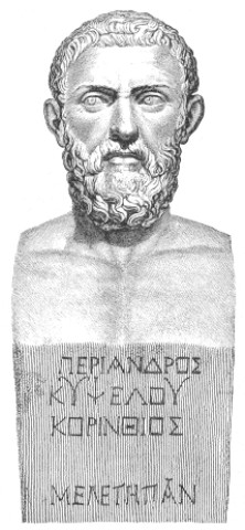 Periander, one of the Seven Sages of Greece